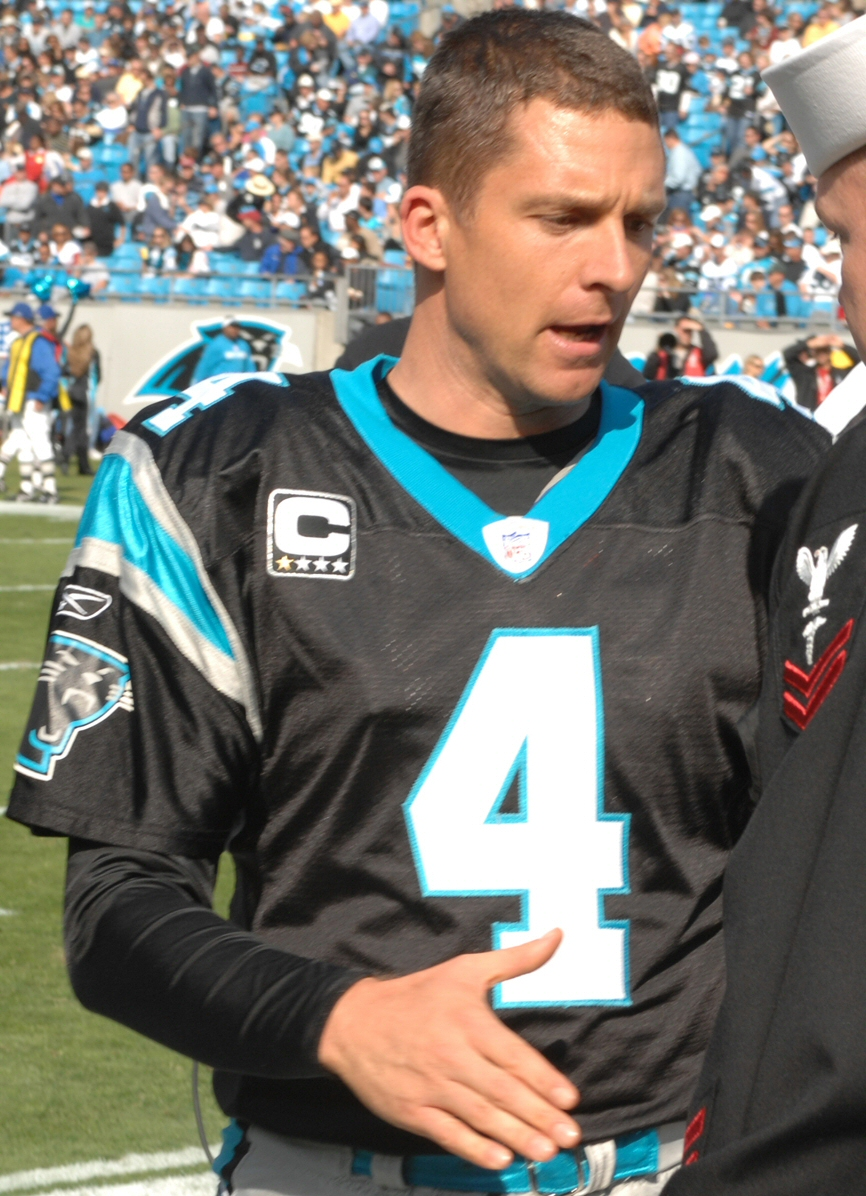 CHARLOTTE, N.C. -- Carolina Panthers kicker, John Kasay, shakes hands at mid-field with Navy Hospital Corpsman William Cooper and Marine Sgt. Edwin Bono Nov. 11. Bono and Cooper, injured in Iraq, were named honorary team captains in honor of Veterans Day. (U.S. Air Force photo/Staff Sgt. Henry Hoegen)